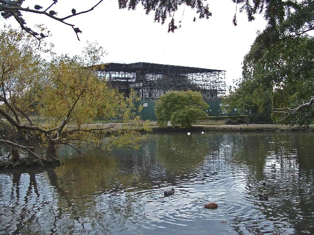 Broomfield House, Broomfield Park. In the background you can see the remains of the once magnificent Broomfield House, which was destroyed by a fire in 1984.